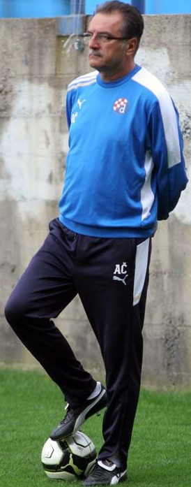 Ante Cacic in charge of Dinamo Zagreb